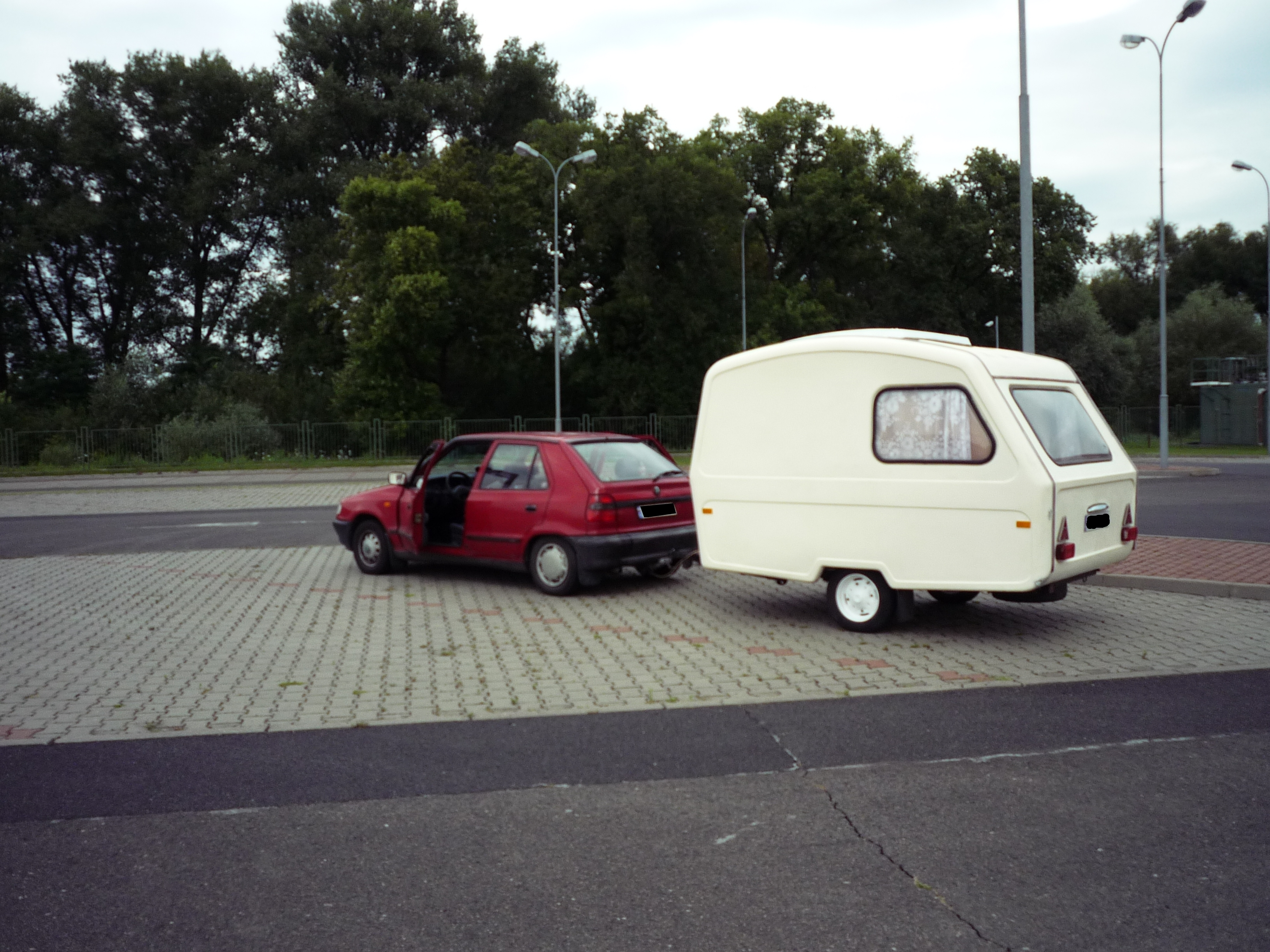 Skoda Felicia with polish caravan Niewiadów N126b produced in 1979 and slightly modified (rear lights). Kostrzyn nad Odrą, july 2009